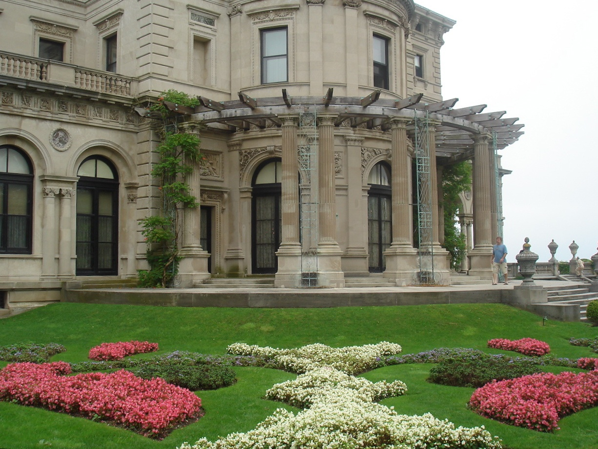 Rear facade with pergola and garden — at The Breakers mansion, in Newport, Rhode Island.